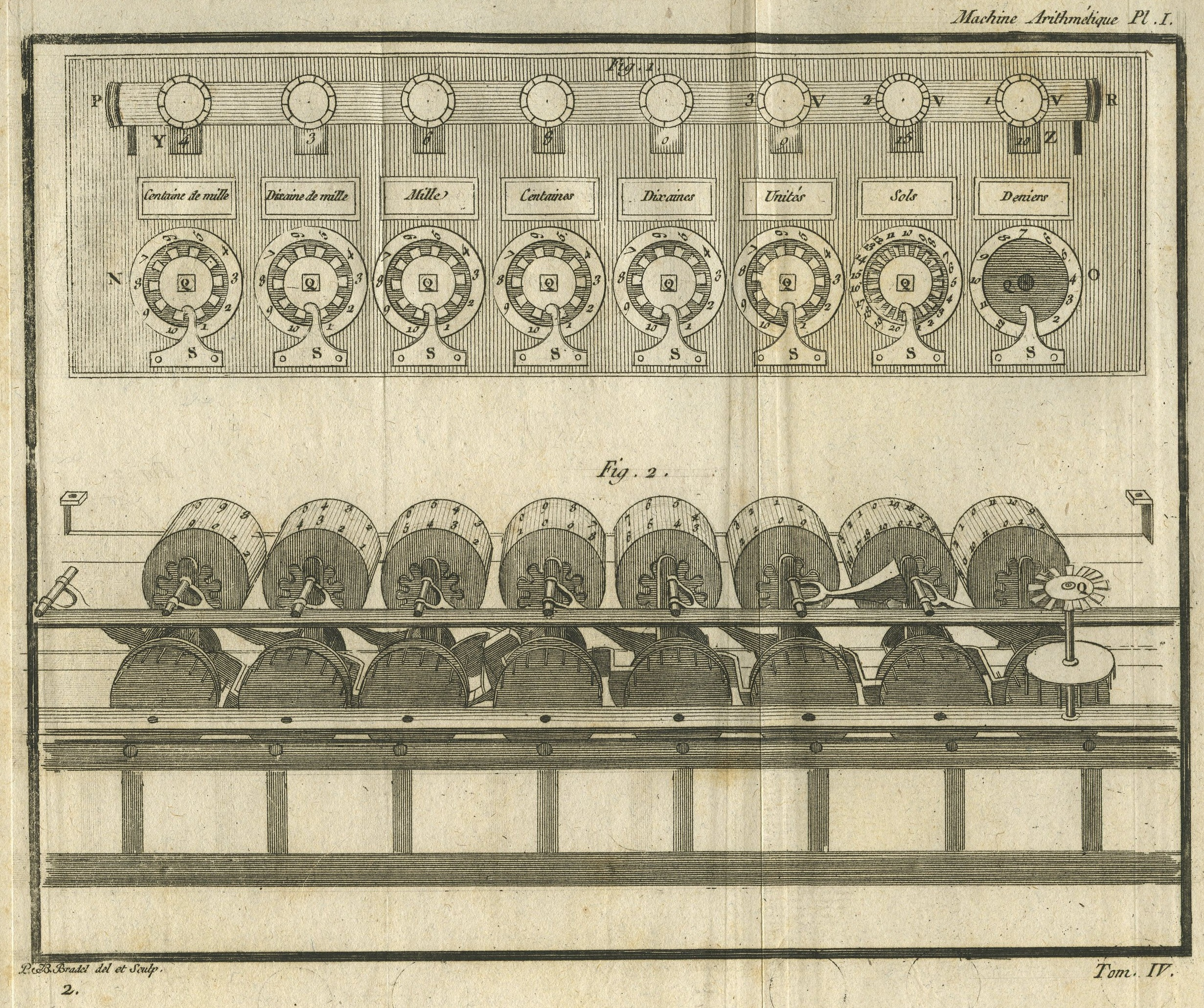 Drawing of the top view of the Pascaline and overview its mechanism